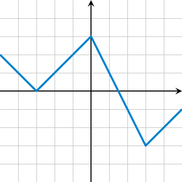 A piecewise-linear function.